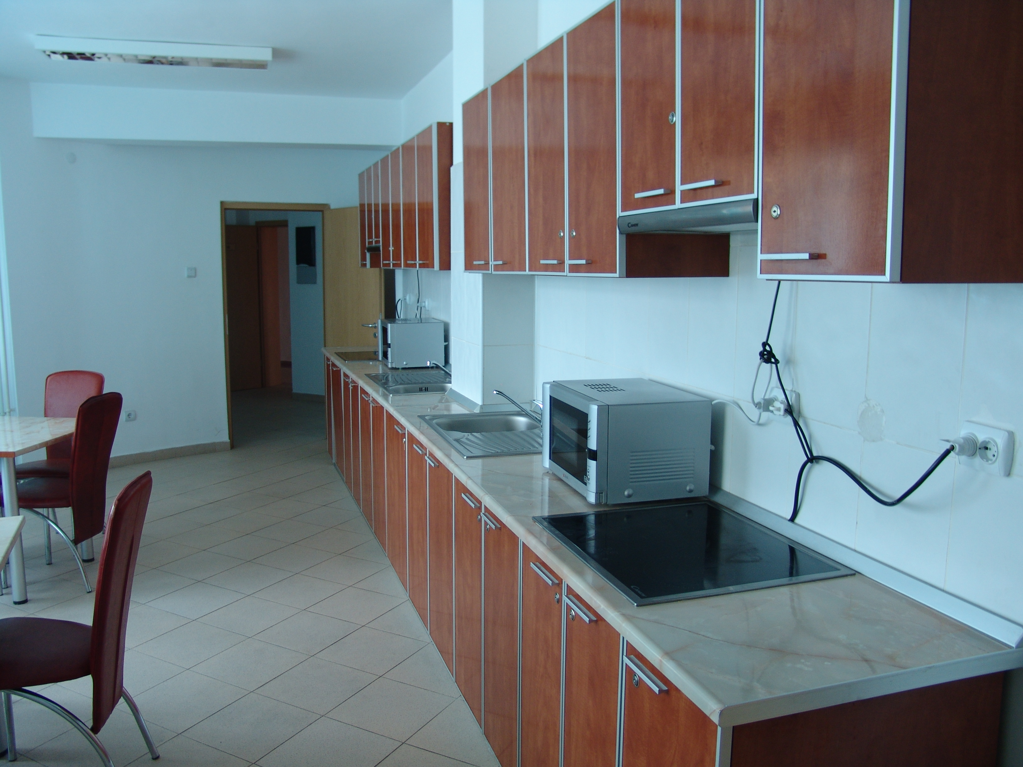 Oficiu Preparare a Hranei Camin - Universitatea Valahia din Târgoviște (UVT)